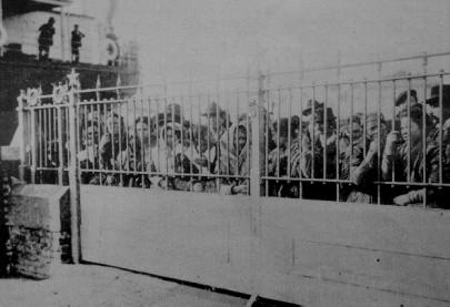 Italian who could not migrate to brazil